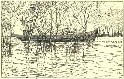 Illustration for Nikolay Nekrasov poem, "Grandfather Mazay and the Hares", depicting the old hunter Mazay rescuing stranded hares during the spring flood. The original ink drawing is kept in the Museum of the Institute of Russian Literature of the Russian Academy of Sciences in St Petersburg.